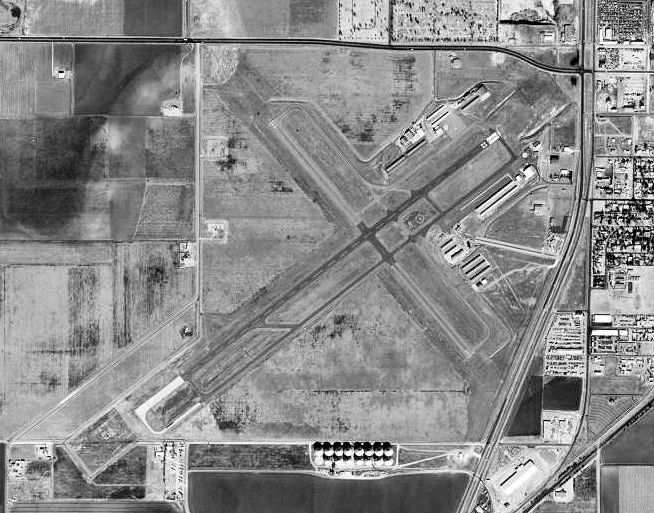 USGS orthophoto of Hale County Airport, Plainview, Texas, USA